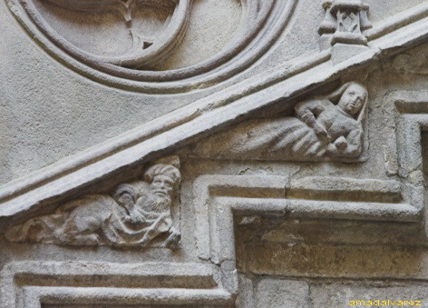 Small sculptures at main stairs of Palau de la Generalitat (Catalan Government Seat) in Barcelona. 15th century - gothic style.